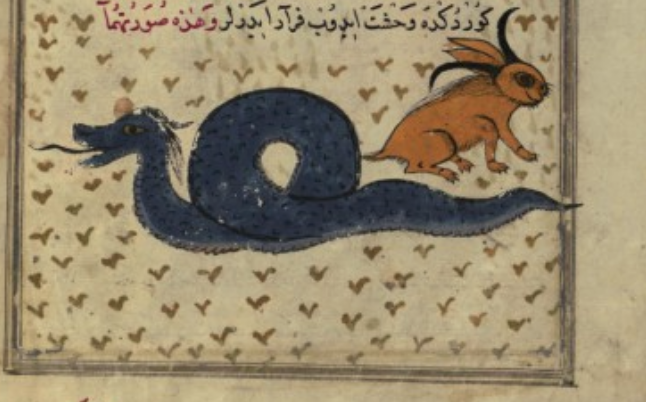 This illustration from Walters manuscript W.659 depicts the dragon of Tannin Island that Alexander the Great (Iskandar) killed and the horned rabbit that its inhabitants gave him as a gift.